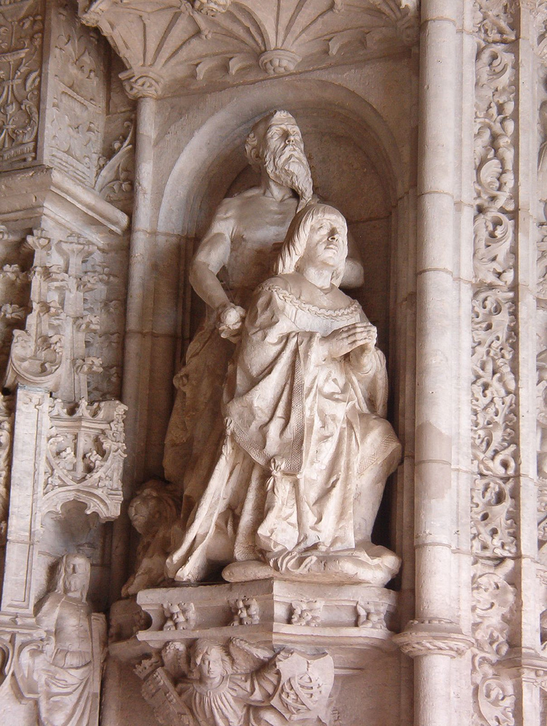 King Manuel (kneeled) and St Hieronymus on the Western portal of the Jerónimos Monastery, Lisbon